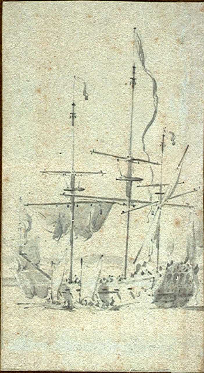 An English sixth rate at anchor A port quarter view of a sixth rate, possibly the ‘Saudadoes’ lying at anchor in a light air. Her fore course loosed in the brails and her spritsail and spritsail topsail loosed. Two sprit-rigged wherries alongside. A high coastline in the distance. Possibly part of a drawing made during the voyage of the Prince of Orange and Princes Mary of Holland in 1677. This is an unsigned pencil and wash drawing by the Elder. An English sixth rate at anchor